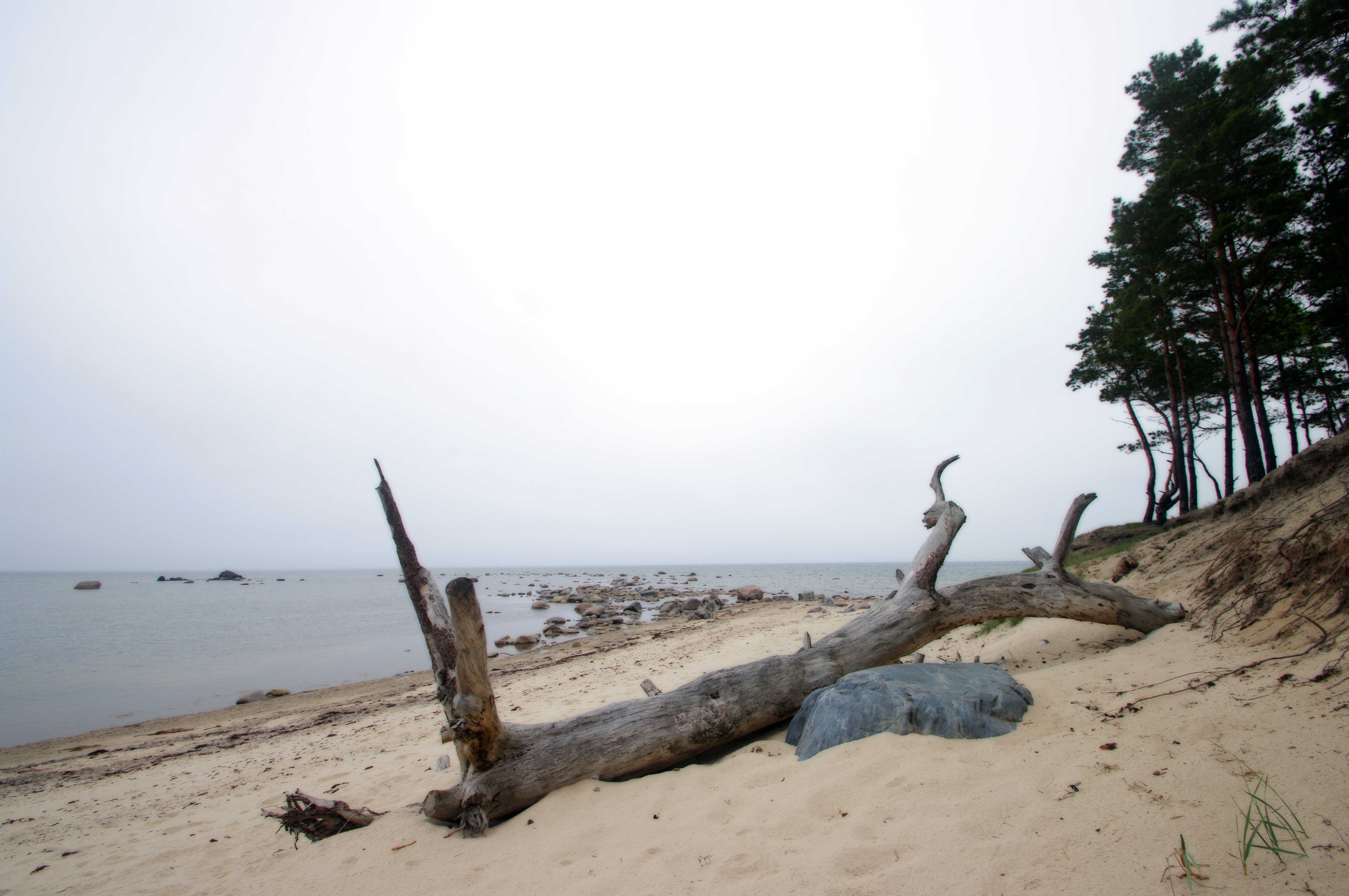 foggy Dirhami coast